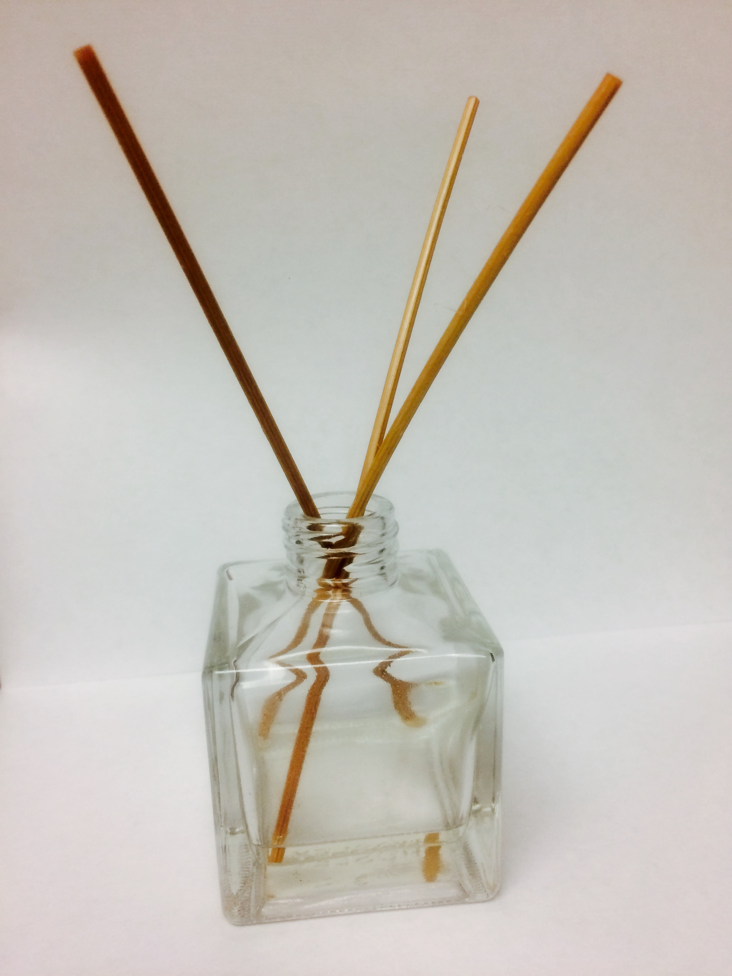 A diffuser made using reed sticks, a square glass bottle, and lavender essential oil.